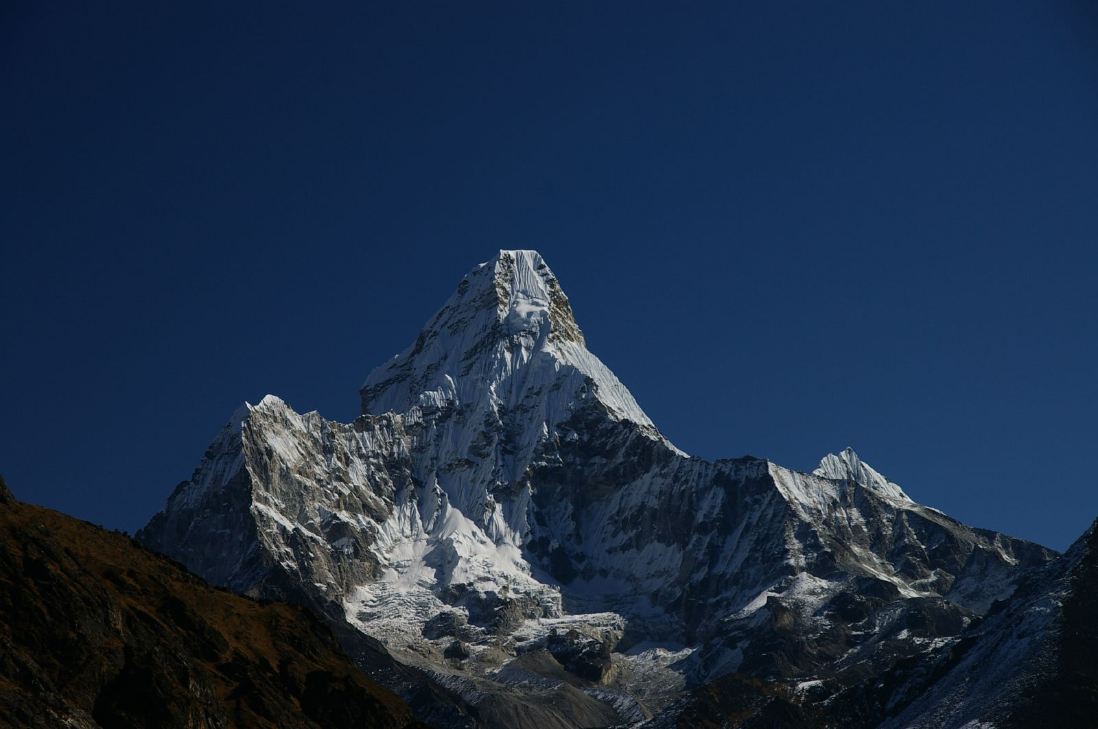 The classic view of Ama Dablam from Khumbu